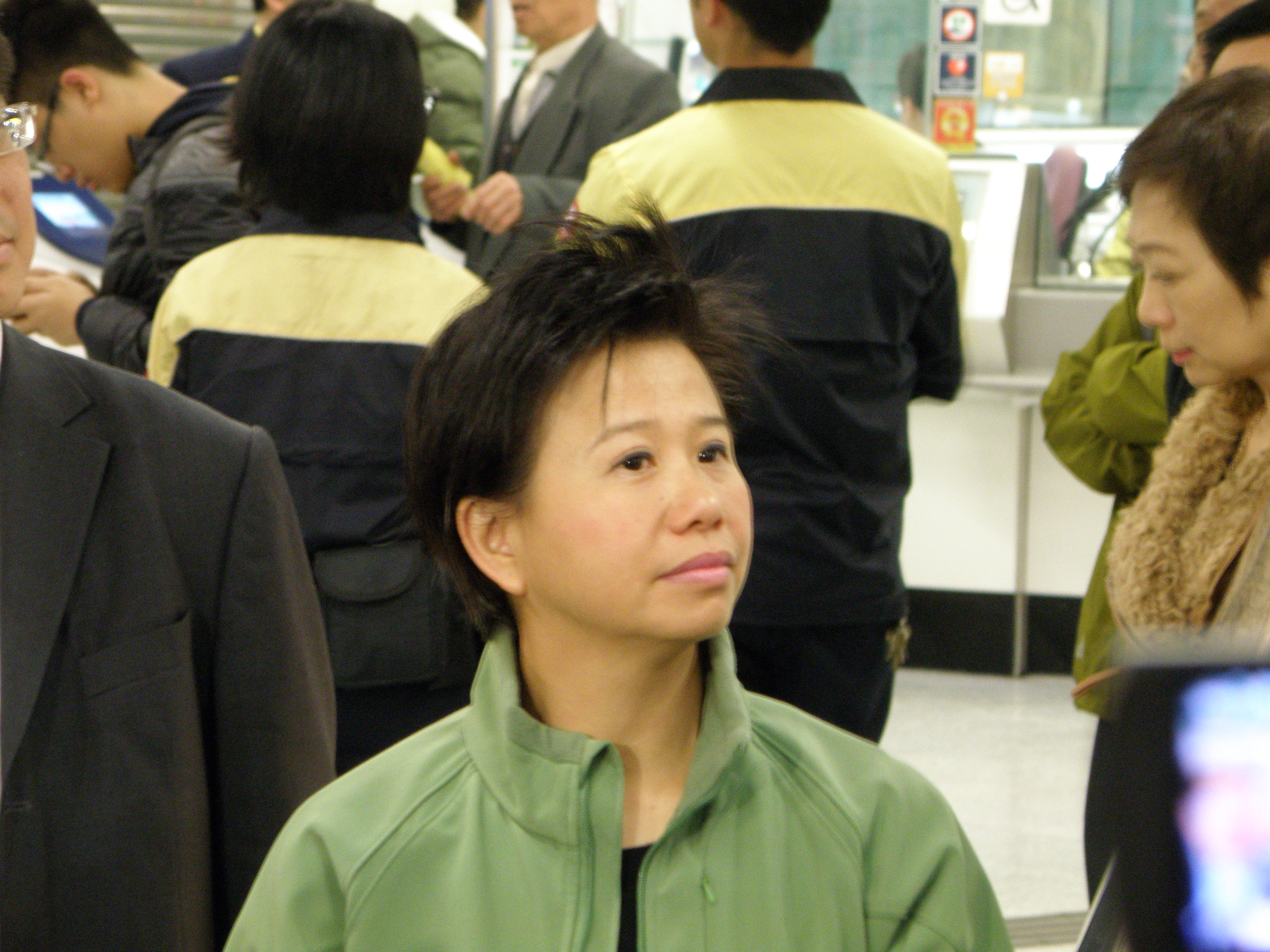 May Wong Mei-kay, General Manager - Corporate Relations of MTR Hong Kong.